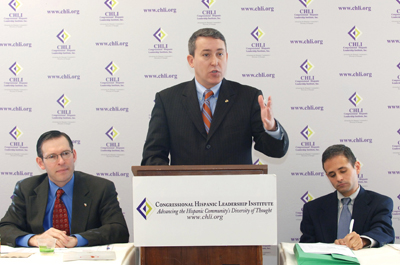 Paul Crespo speaking at the Congressional Hispanic Leadership Institute's (CHLI) "Future leaders Conference" with the Inter-American Bank (IDB) at Miami Dade College